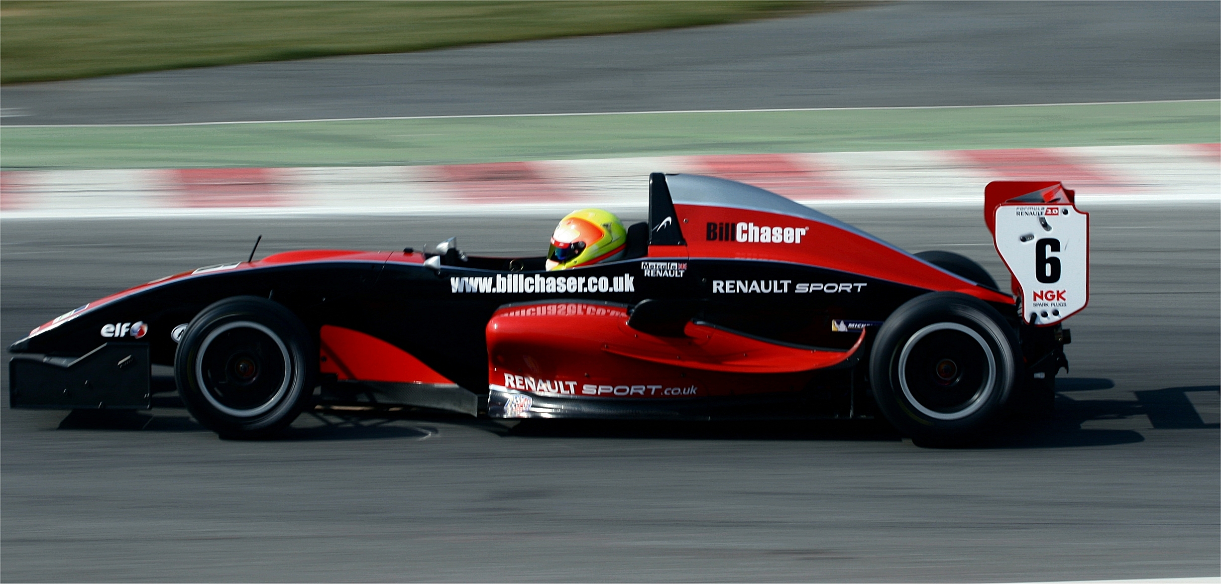 Jeremy Metcalfe (AKA Cobra) driving a Renault FR2000, used in the 2007 Formula Renault UK 2.0 Championship, during the qualifying session for the second race at the first meeting of the season at Brands Hatch. Metcalfe qualified seventh.